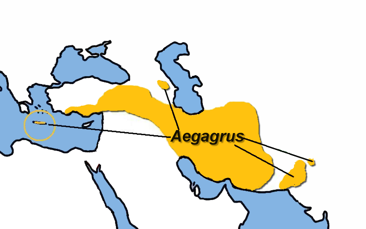 Range map of the Capra aegagrus specie